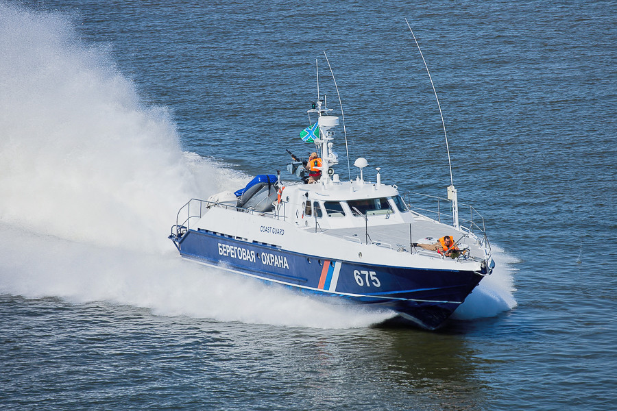 PSKA-617 in Astrakhan.